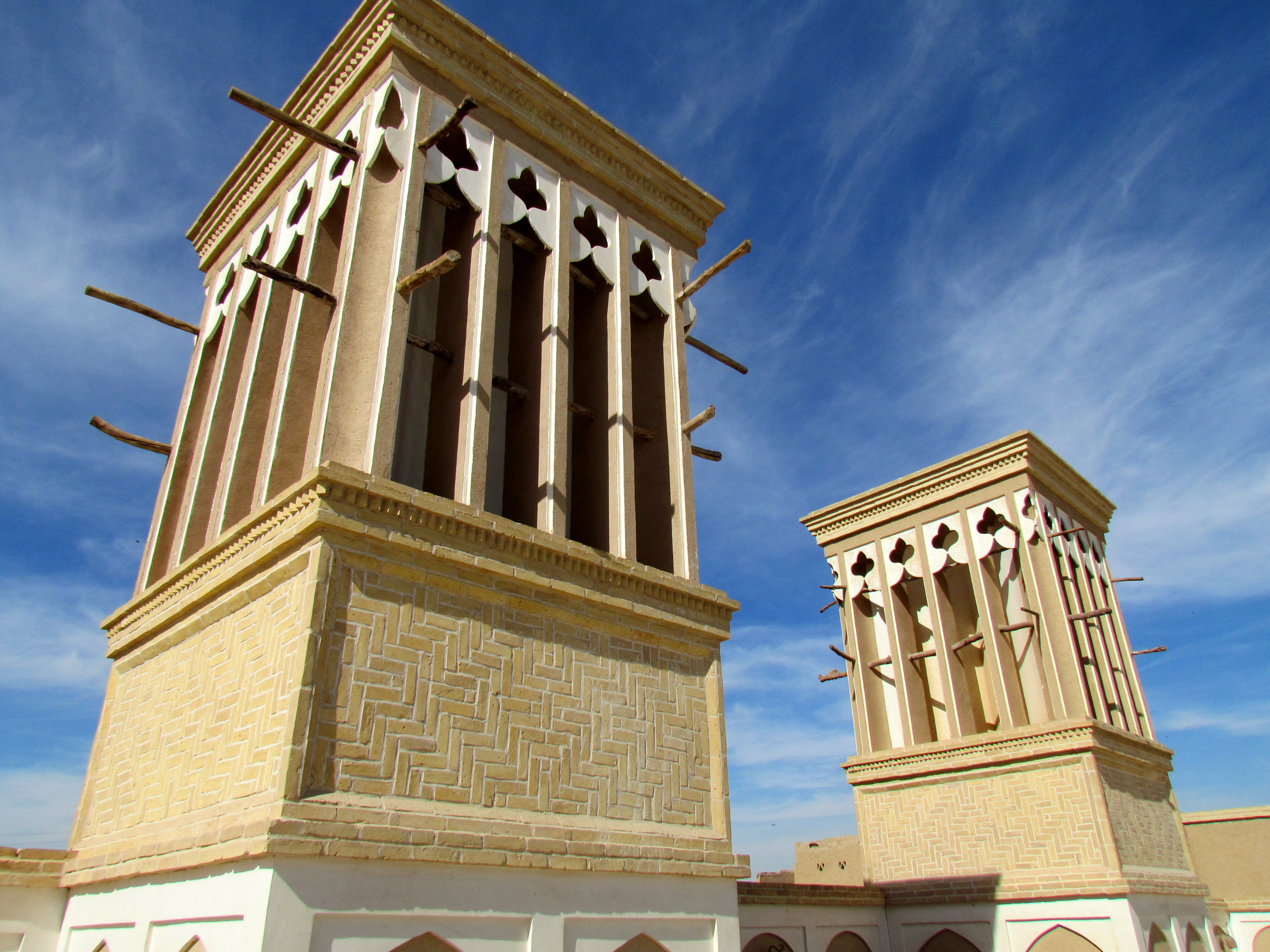 Yazd - Badgir - Windcatcher